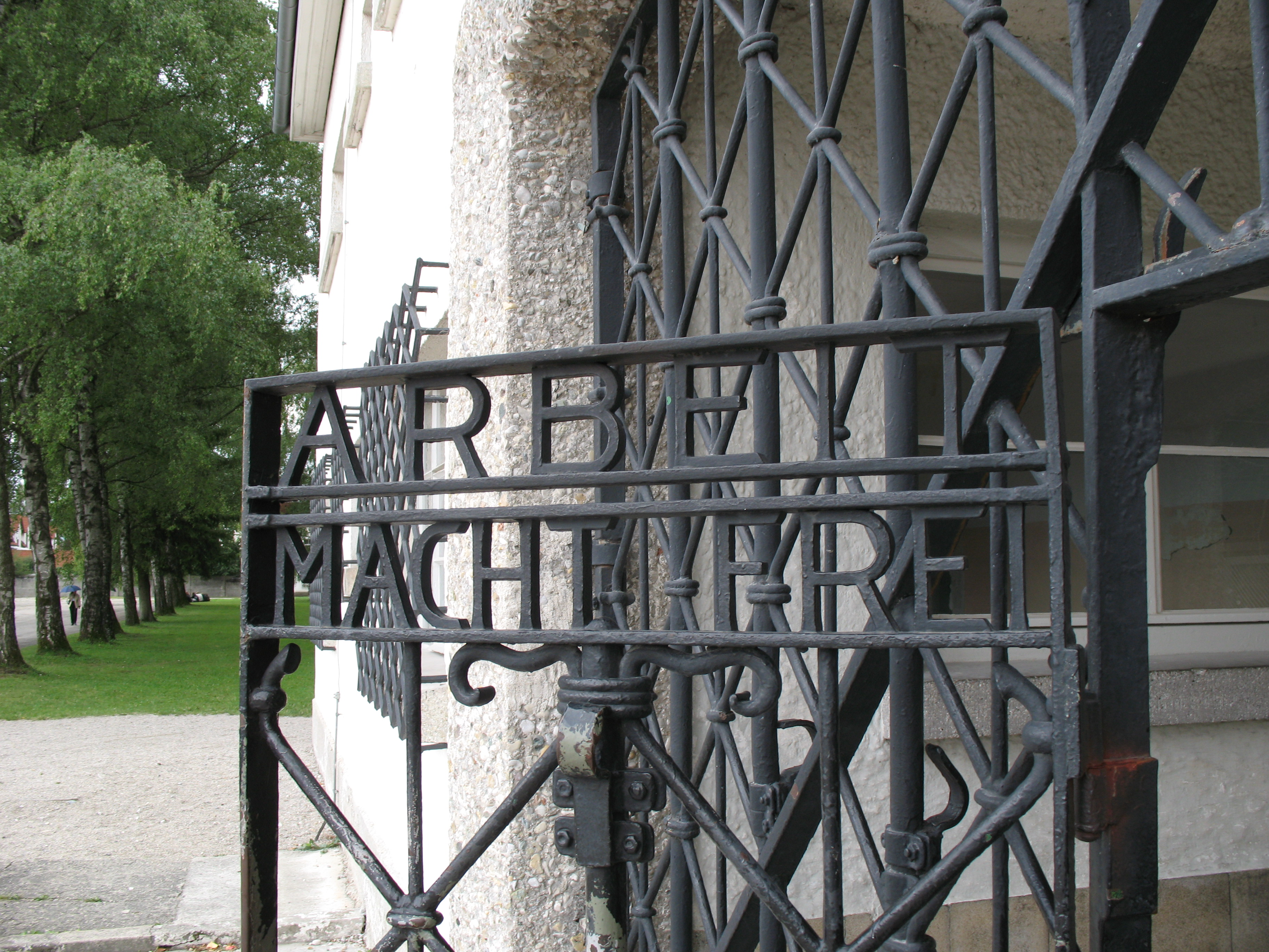 Gate reading "Arbeit macht frei" or "Work will set you free", Dachau Concentration CampDachau, Germany - Google Maps - Google Earth